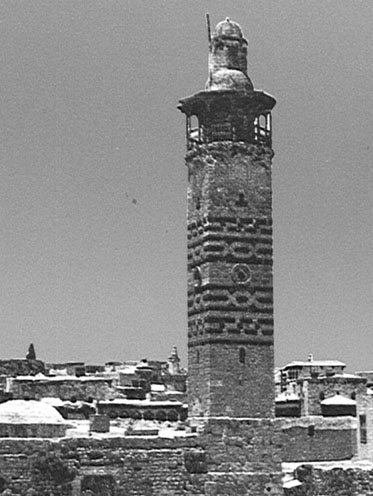 Image of Hama before Massacre in 1982, the compliment image of "After Hama Massacre". Photograph shows the Al-Nuri Mosque, on the western bank of the Orontes River, next to the Hama Castle, prior to its destruction.